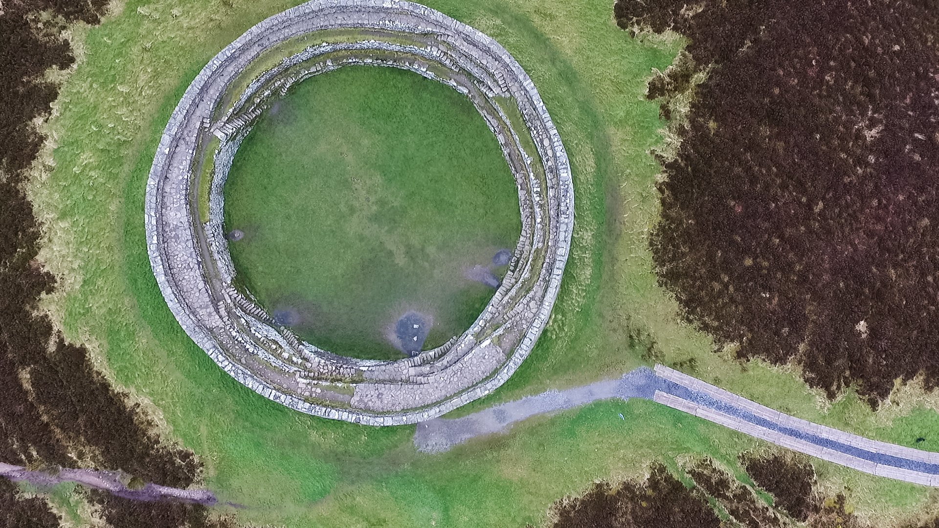 Grianan of Aileach fort sits atop a beautiful scenic view and is a must see to visitors (birds eye view)